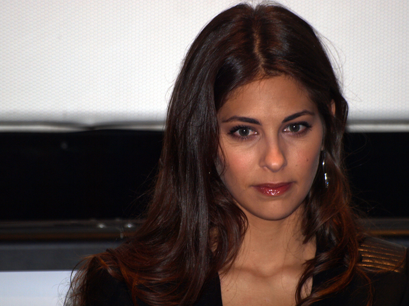 Ariadna Romero - Foto di G. M. Ireneo Alessi (Sinix)